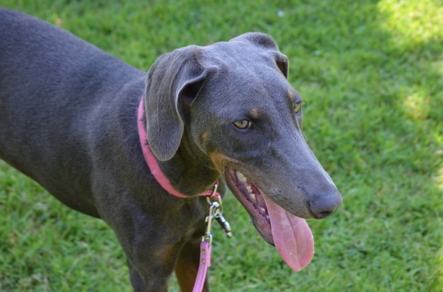 5 month old girl Dolce